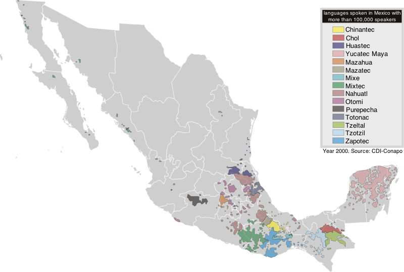 This is a translation from Spanish to English of a map of the languages of Mexico with more than 100,000 speakers. The original version is here